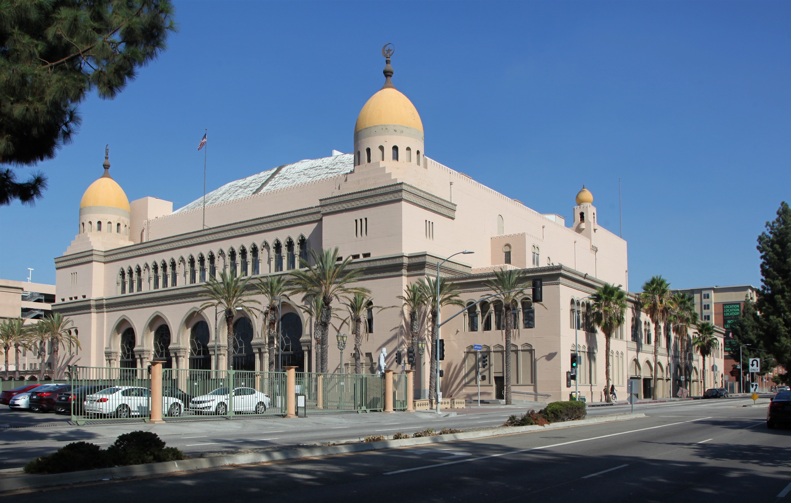 Al Malaikah Temple - Shrine Auditorium